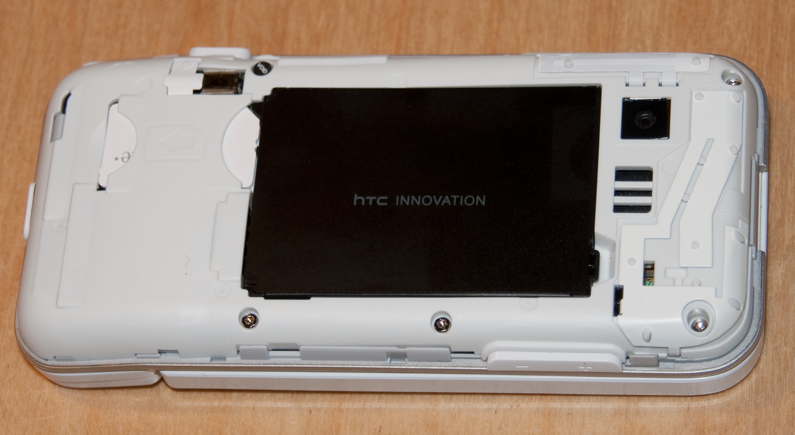 HTC Dream (white) flipside